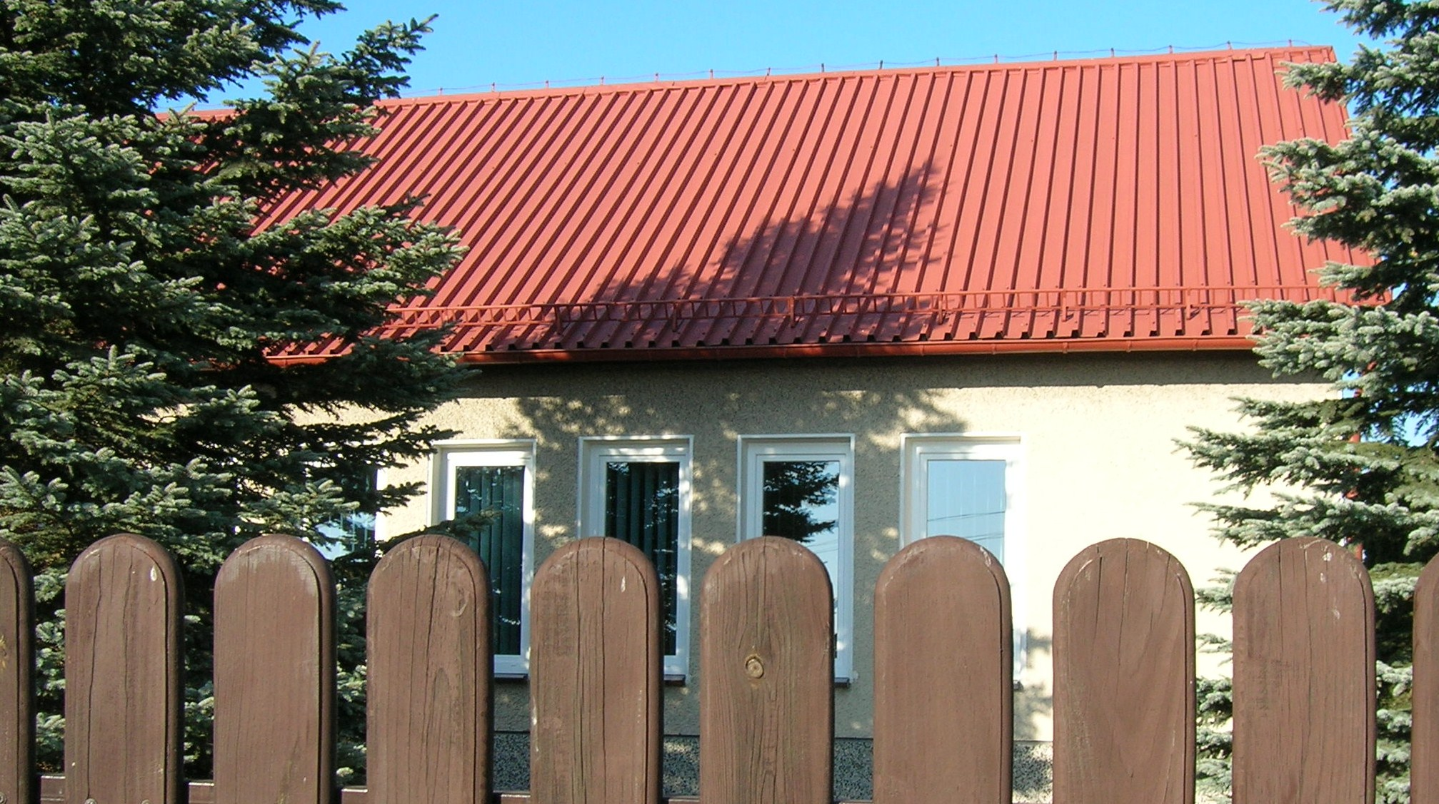 Kingdom Hall Jehovah's Witnesses in Nowa Góra-Łany (Poland)